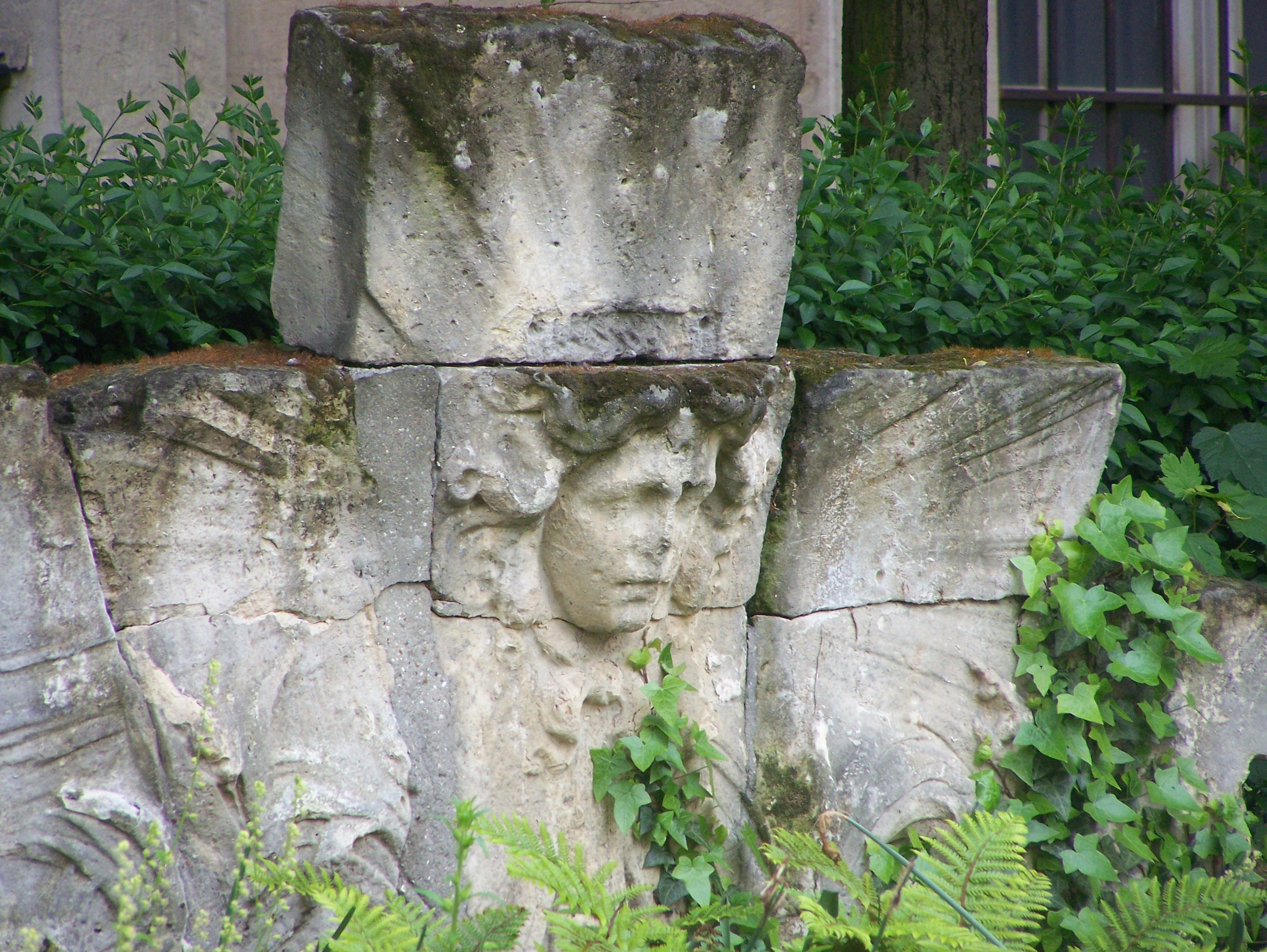 Square Georges-Cain, rue Payenne, Paris. Sculpture